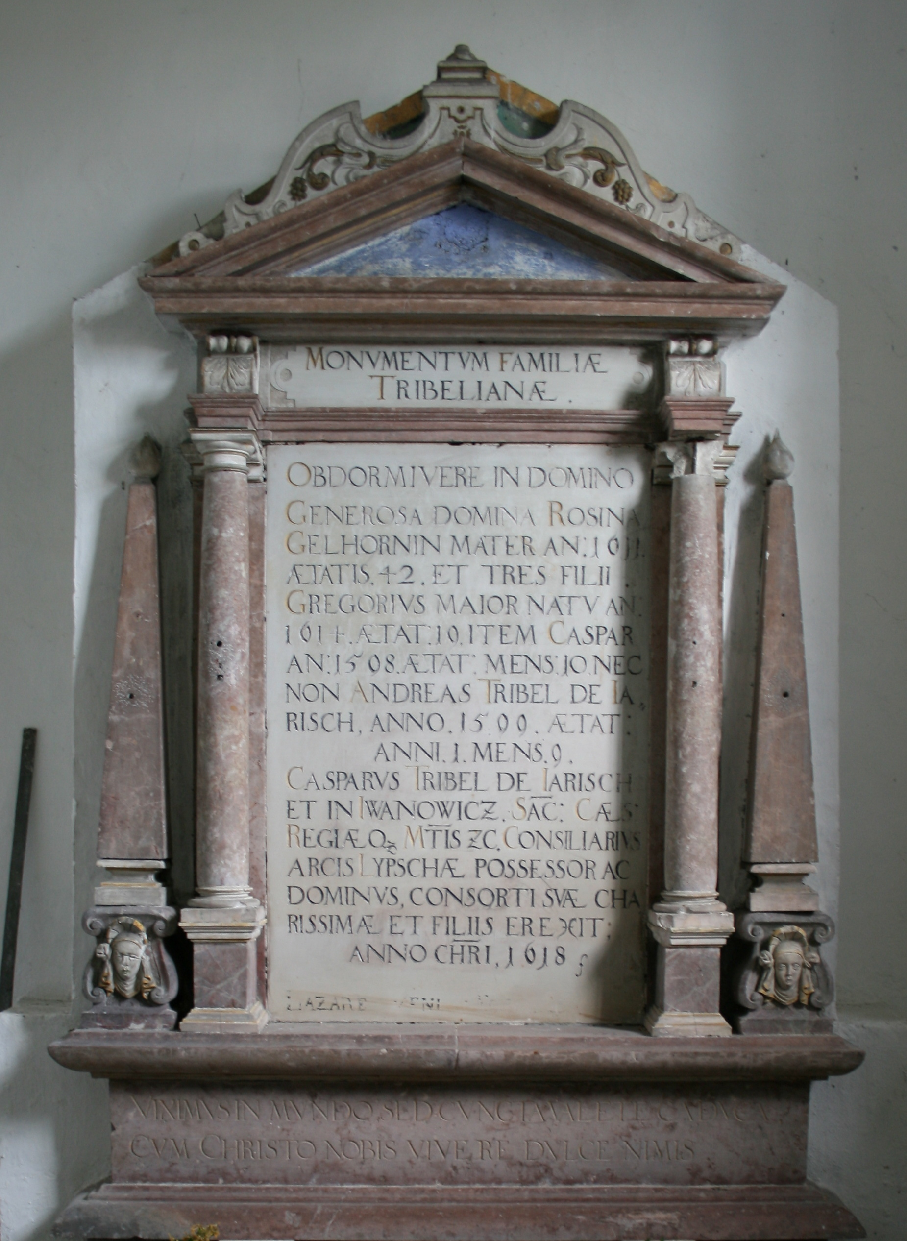 Slovenská Ľupča - tombstone of Caspar Tríbel's wife and their three sons in the Catholic church; built in 1618